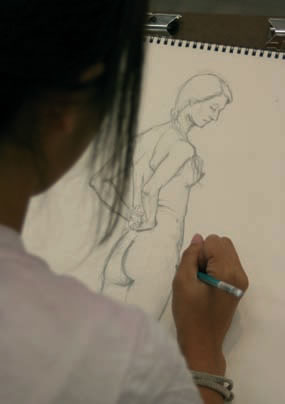 Drawing from life is an essential component of the curriculum at Ryman Arts, part of the Los Angeles-based organization's Saturday studio classes.